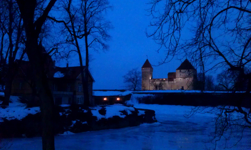 View towards the Kuressaare castle in Kuressaare, Saaremaa, Estonia